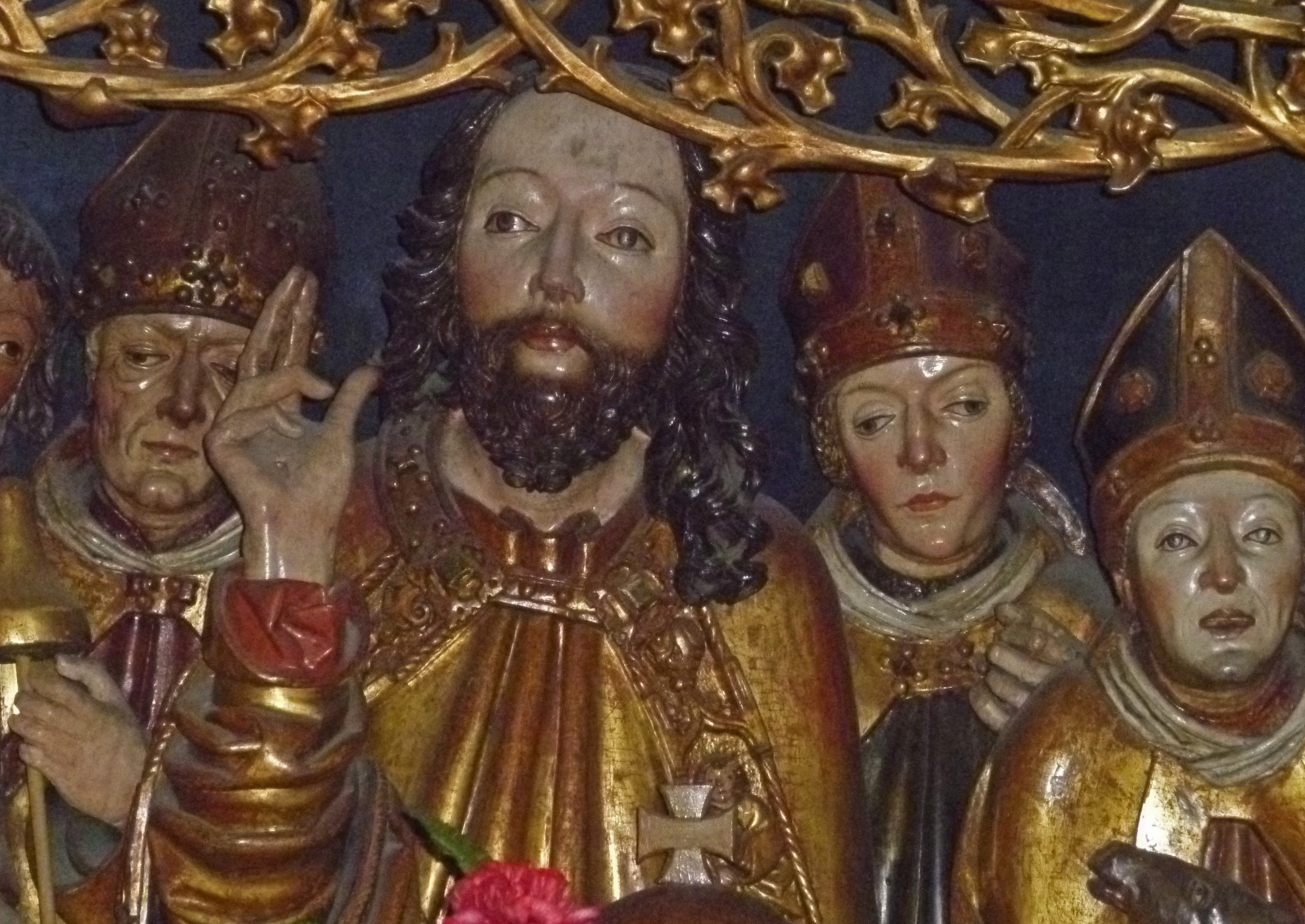 "Altar of St. Barbara" (close-up), retable by Master Paul of Levoča in the Church of the Assumption in Banská Bystrica (Slovakia).